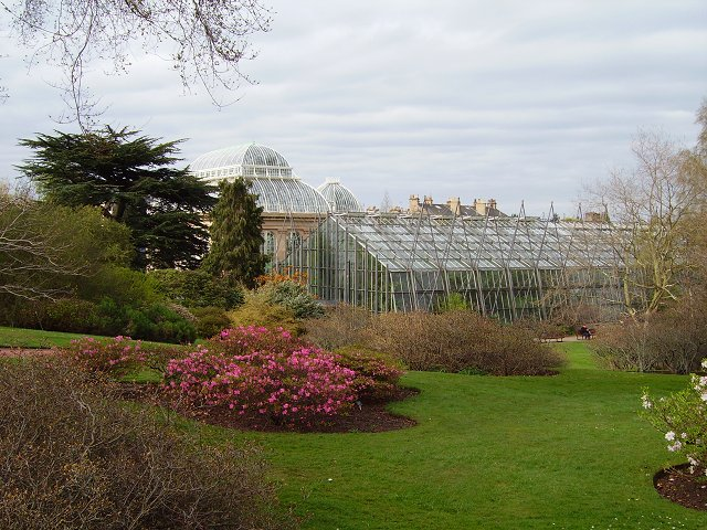 Glasshouses, Botanic gardens. The warm sector of the Royal Botanic Gardens, Edinburgh.